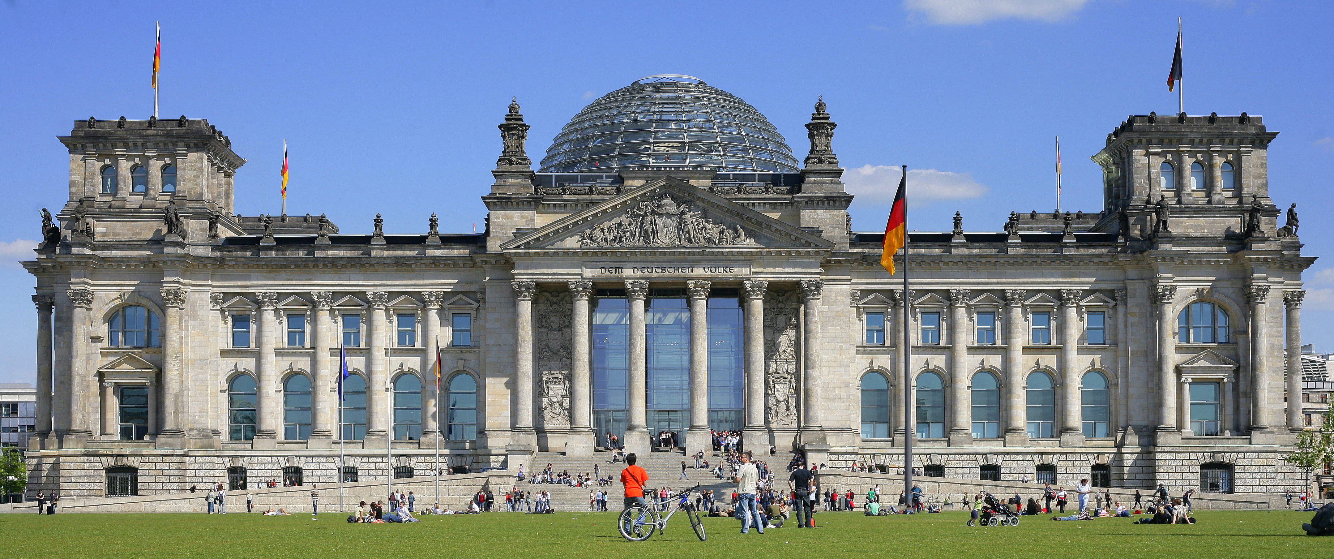 Reichstag